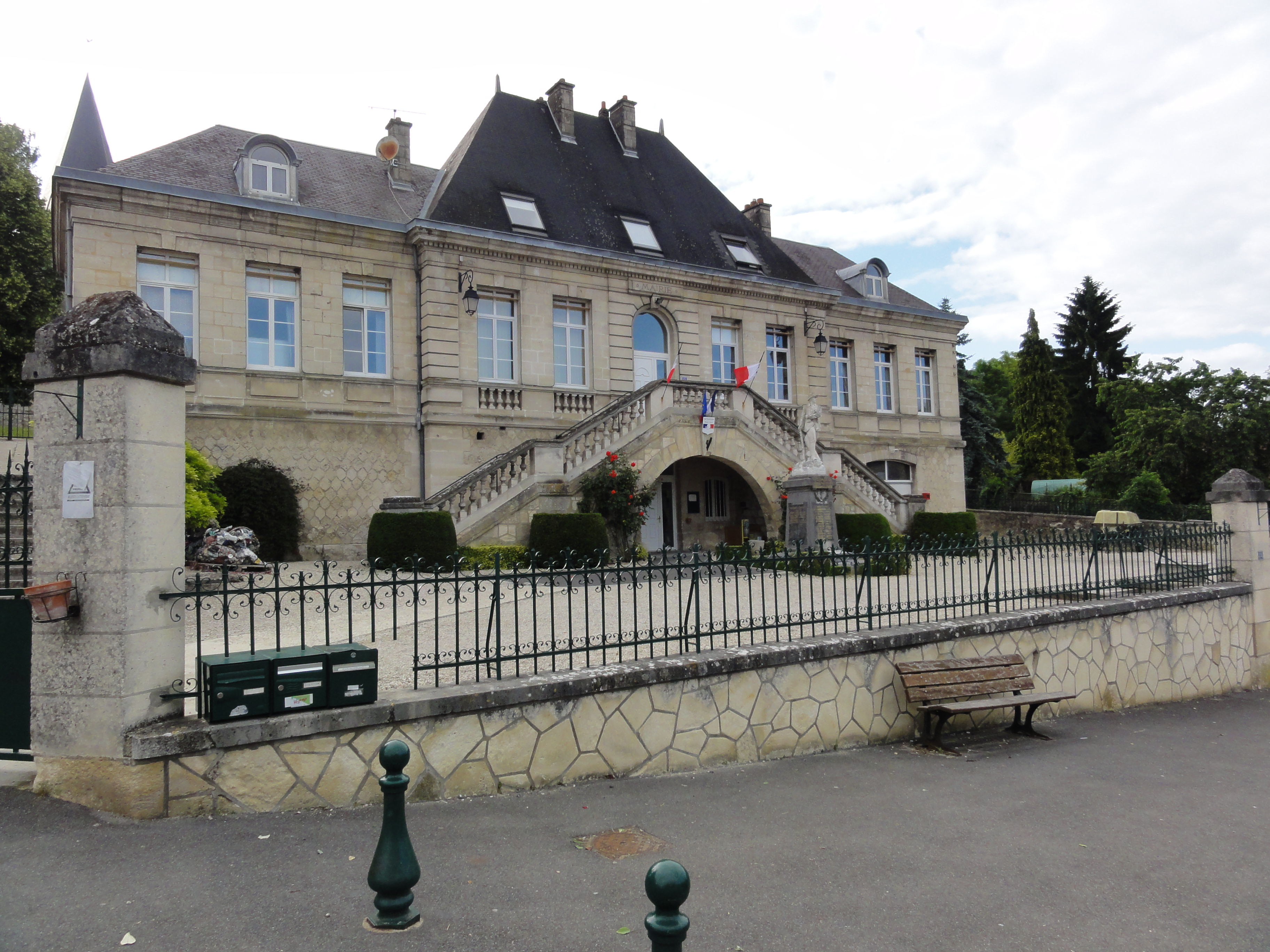 Vauxaillon (Aisne) mairie